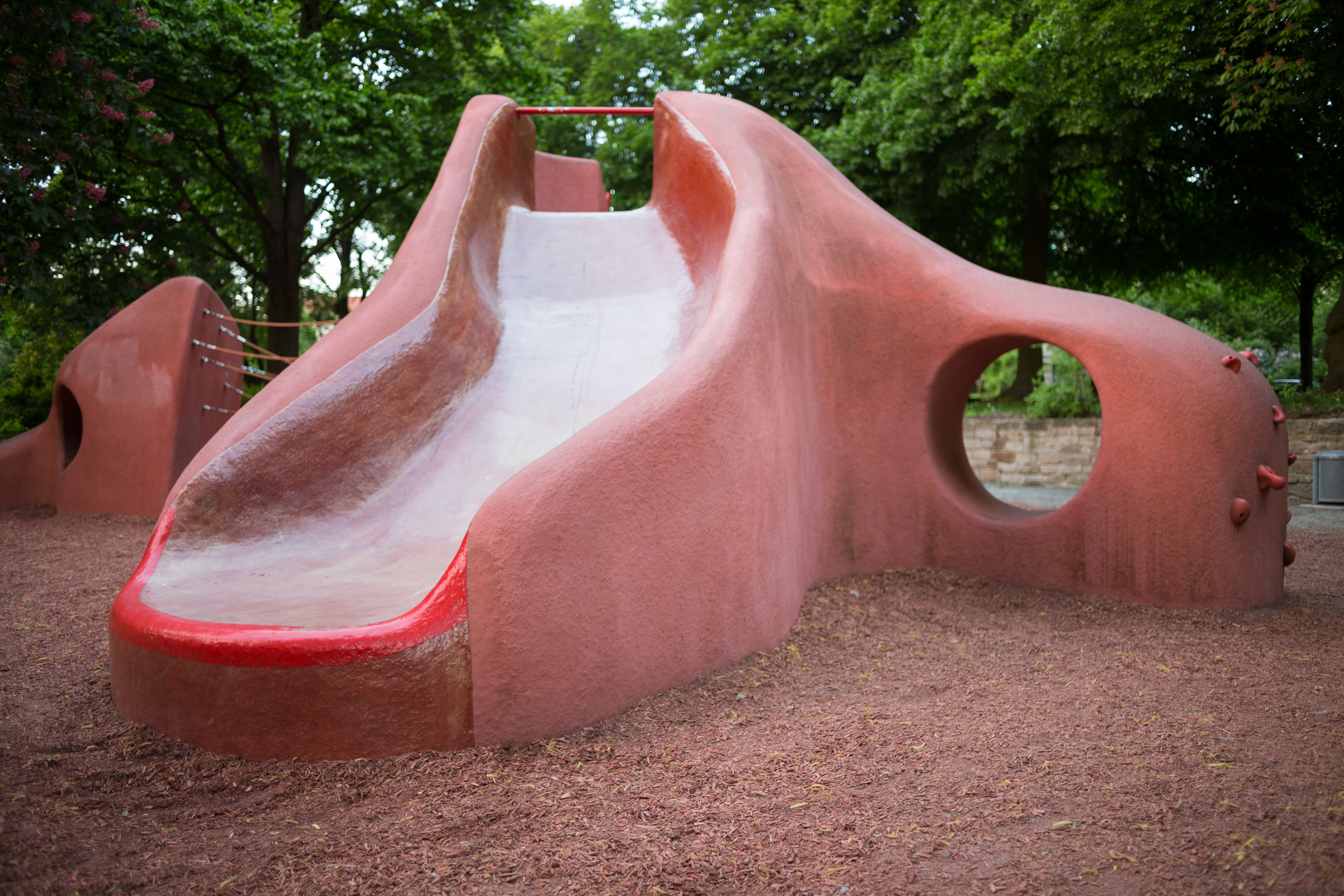 Playground equipment located in Maschpark garden in Mitte quarter of Hannover, Germany.